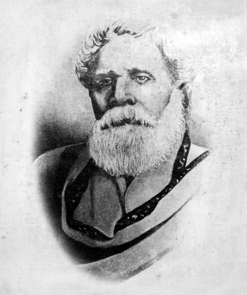 Rajnarain Bose